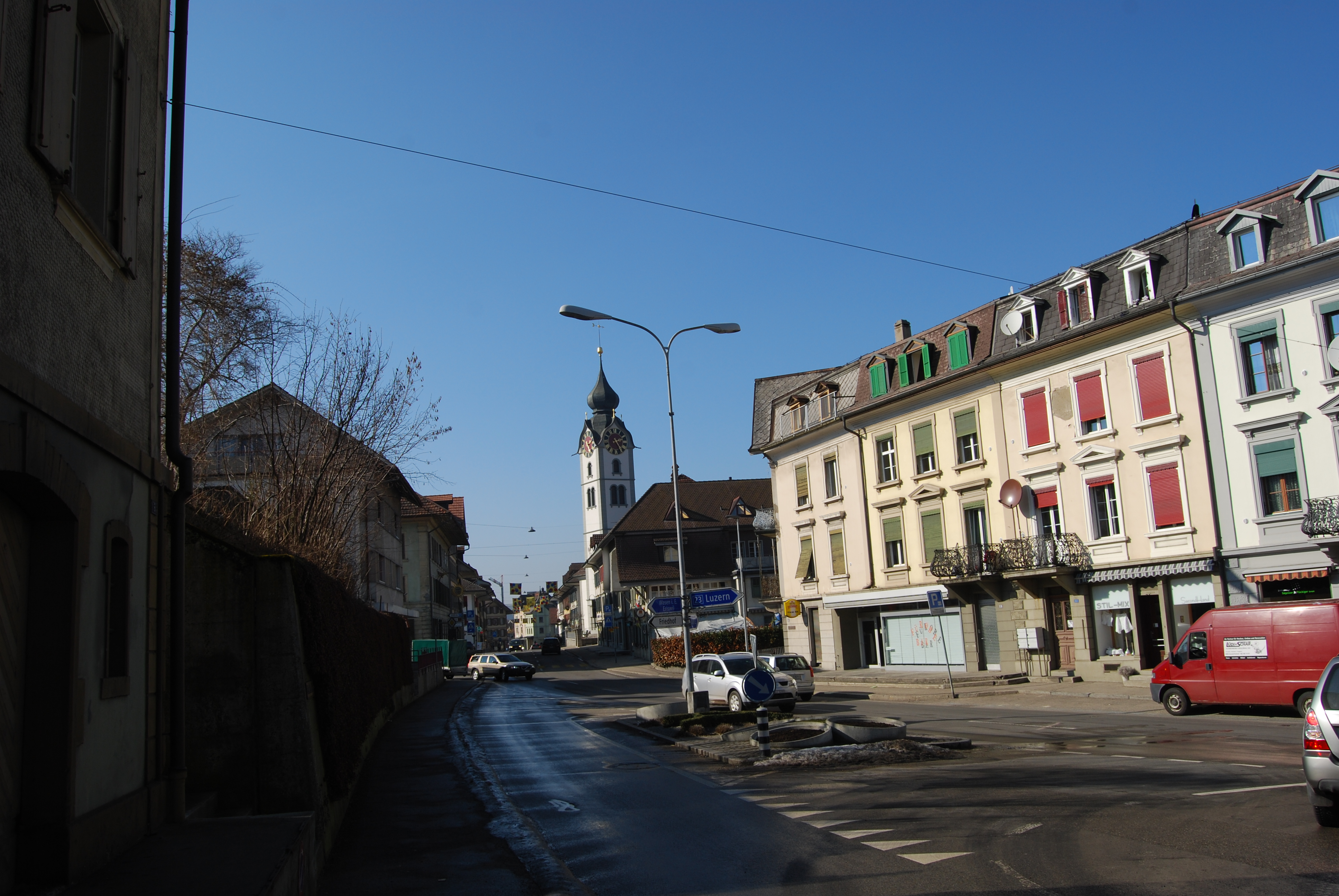 Huttwil, canton of Bern, SwitzerlandEsperanto: Huttwil, Kantono Berno, Svislando